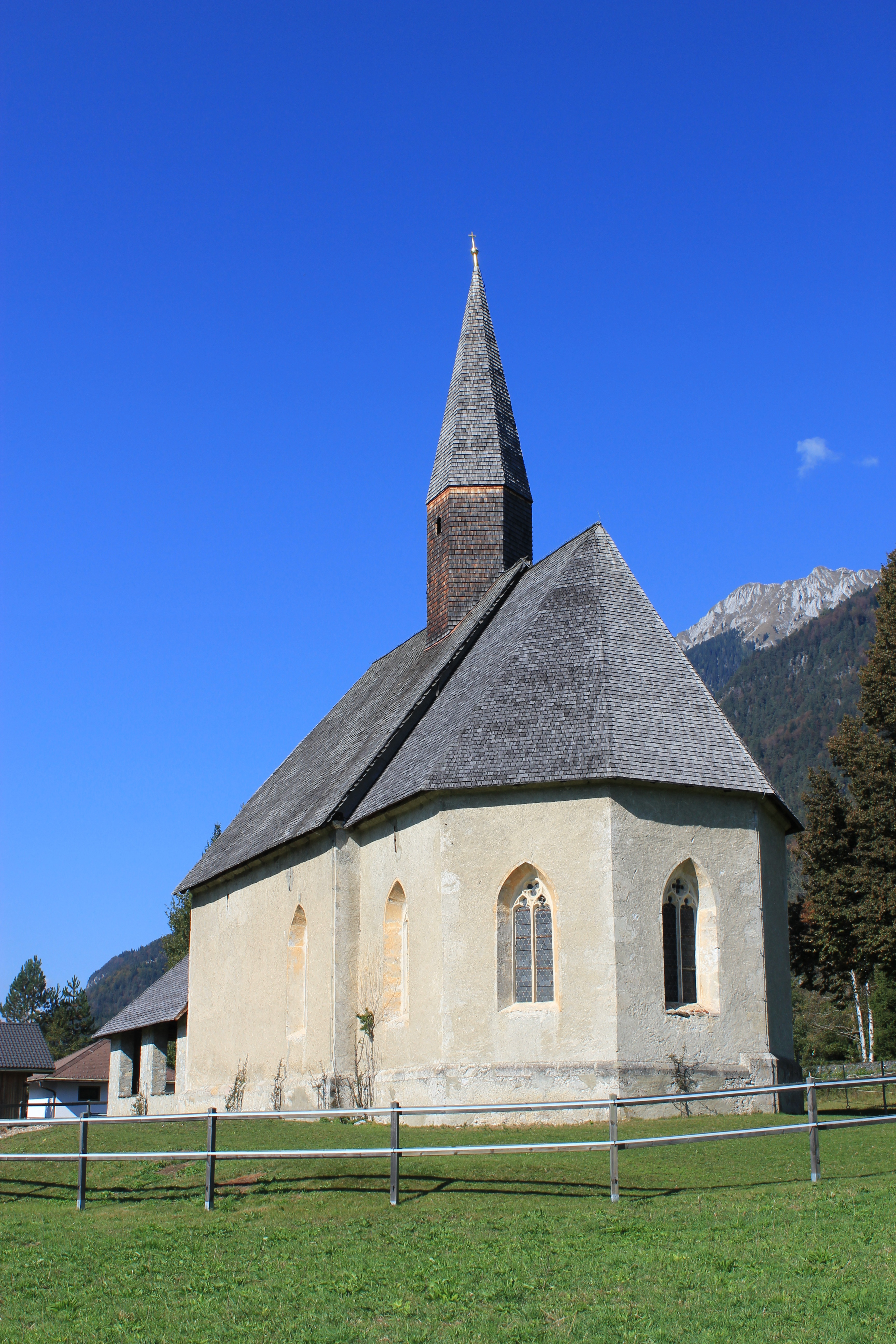 Church in Presseggen in the community of Hermagor